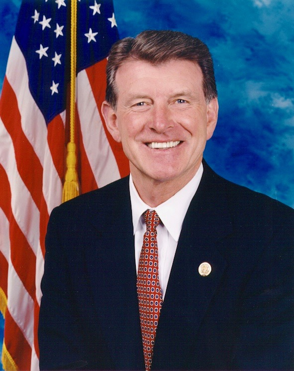 Butch Otter, former U.S. Representative and Lieutenant Governor of Idaho; current Governor of Idaho. Official congressional portrait from sometime before 2006.